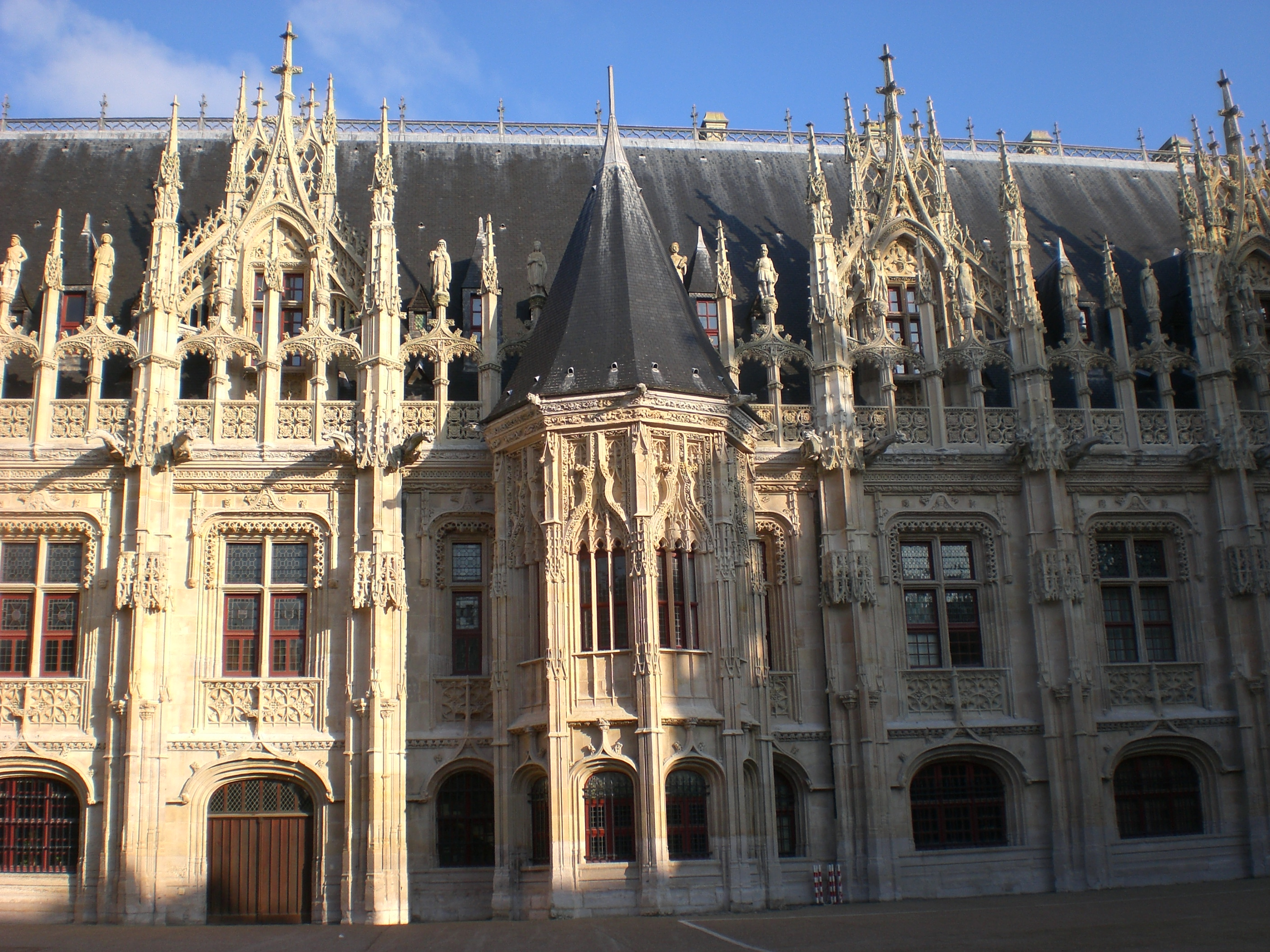 Rouen, Palaice of Justice, 1499-1550